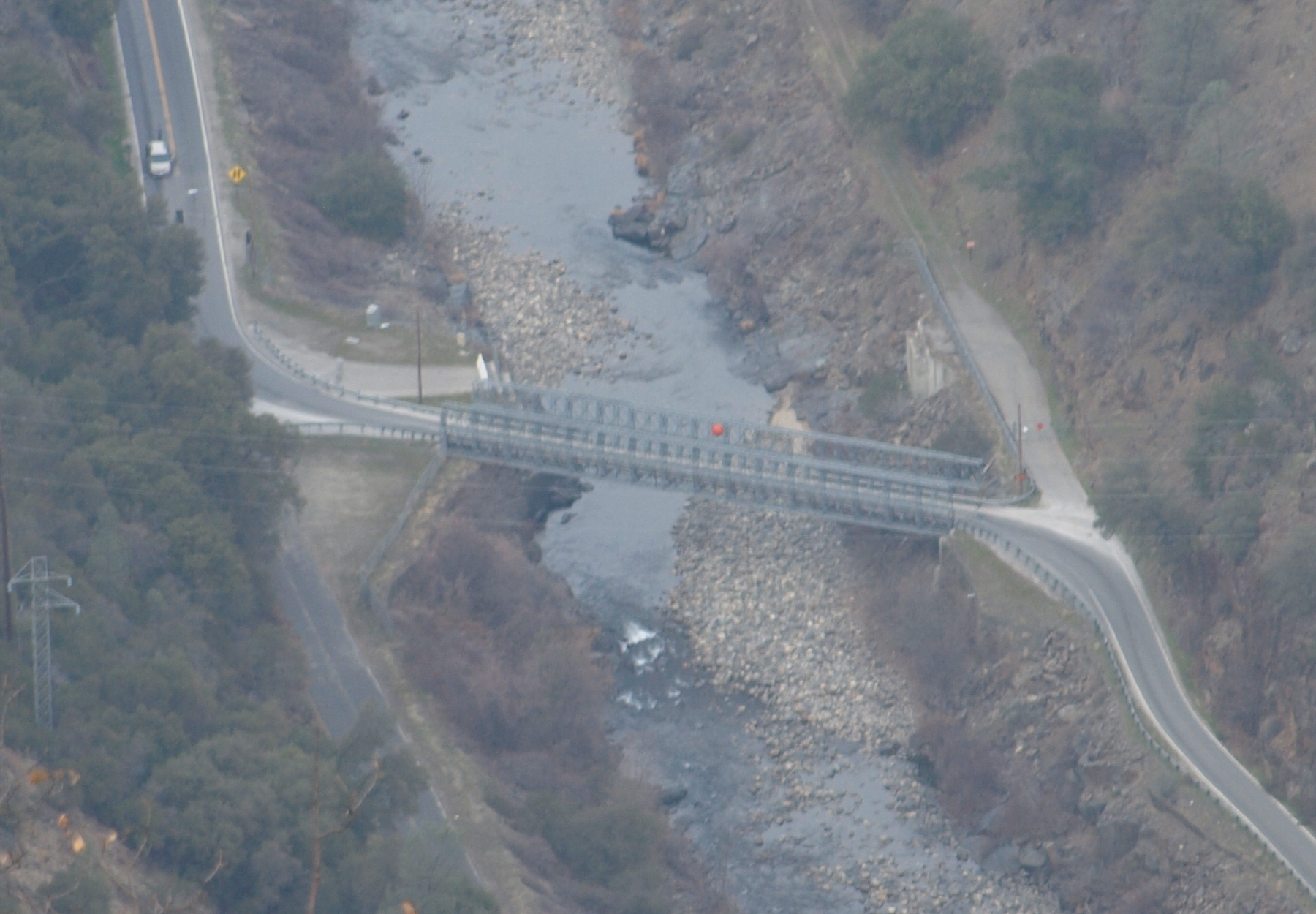 View of one of the two temporary bridges which reroute traffic around the Ferguson Slide on California Highway 140. This bridge is the downstream bridge.